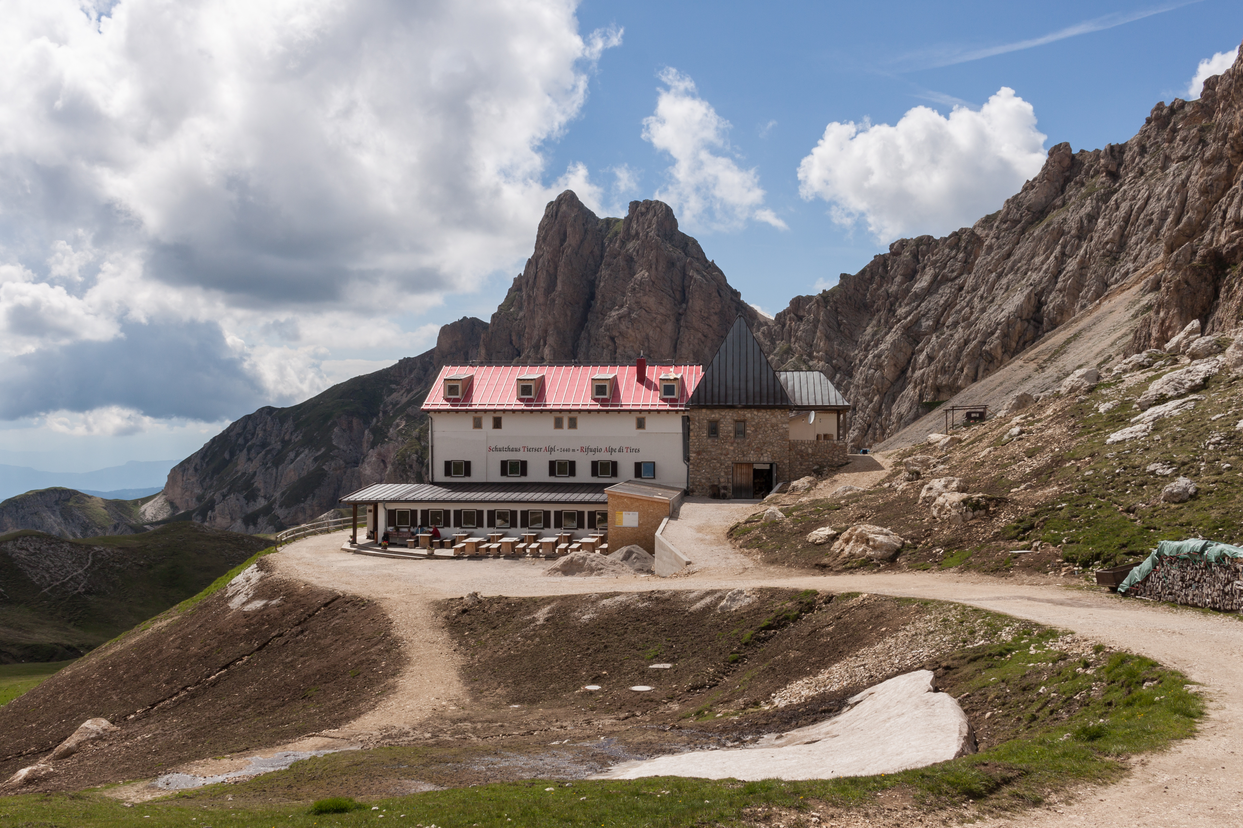 The Tierser Alpl refuge, South Tyrol.